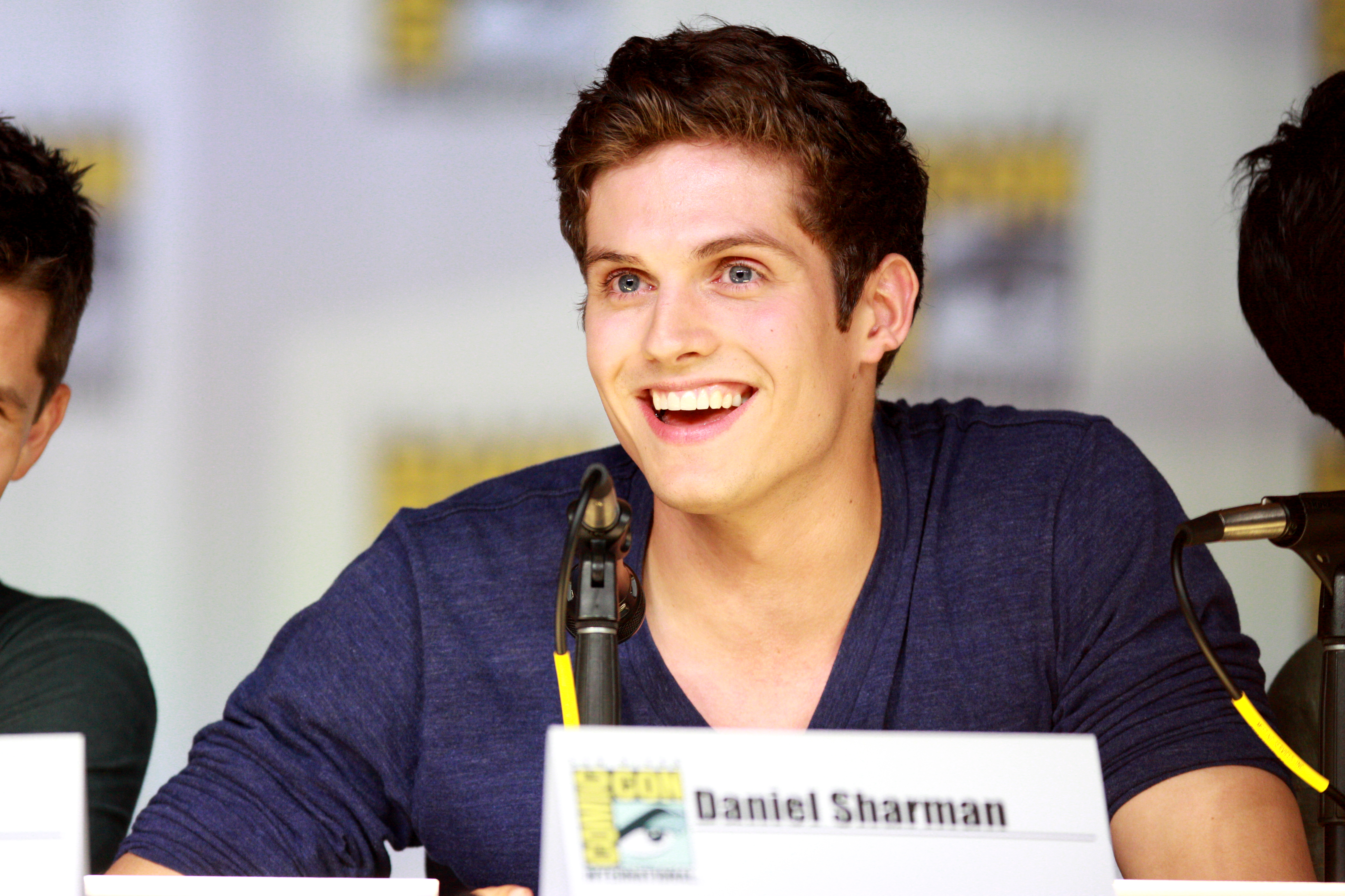 Daniel Sharman speaking at the 2013 San Diego Comic Con International, for "Teen Wolf", at the San Diego Convention Center in San Diego, California.